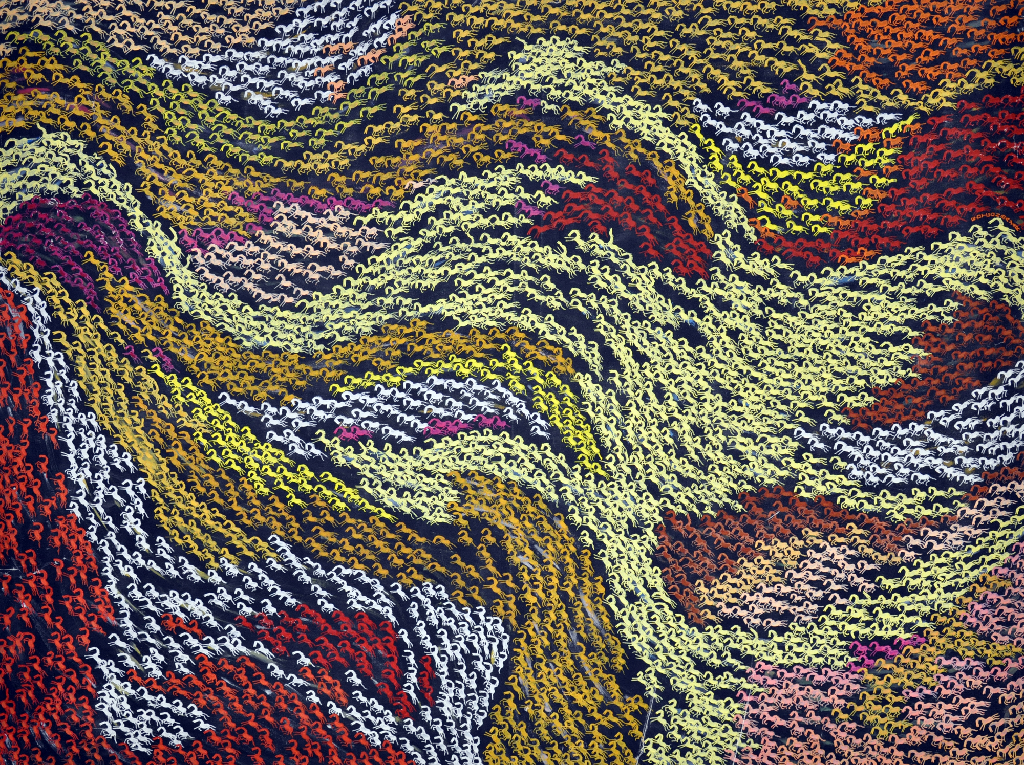 Roaring Hoofs -12, Painting, Tempera on cotton, 120 x 160 cm, Year 2008, Berlin, Artist: Otgonbayar Ershuu